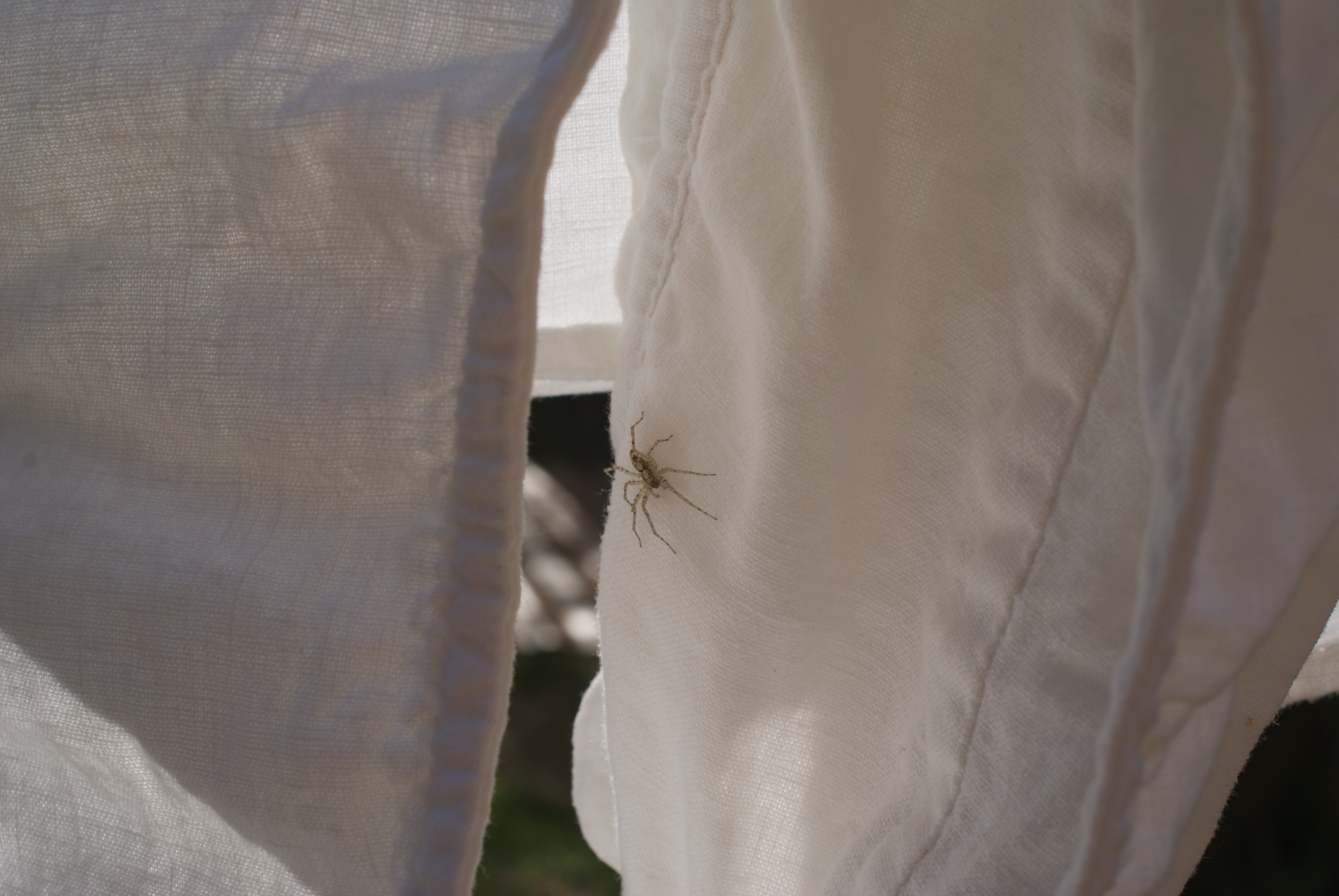 Unidentified Arachnida in Minsk